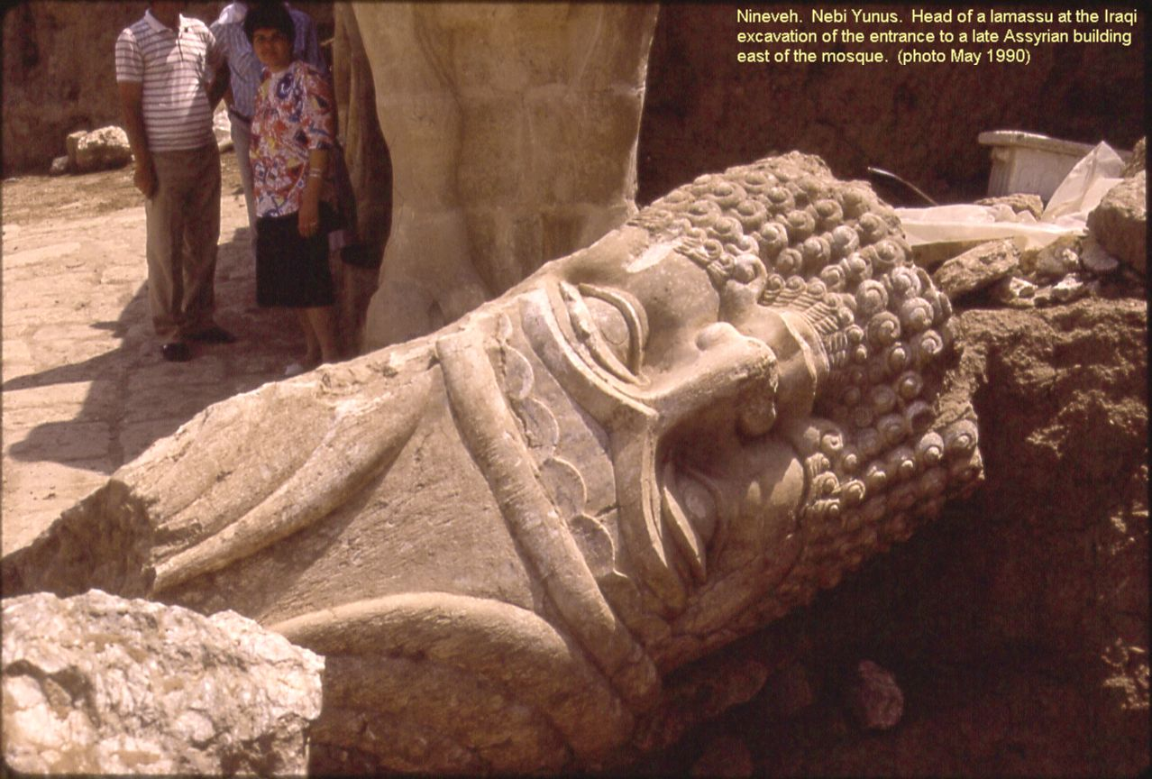 Nineveh. Nebi Yunus. Iraqi archaeologists excavate the monumental entrance to a late Assyrian building. The large head of a bull-man sculpture lies in a passageway.